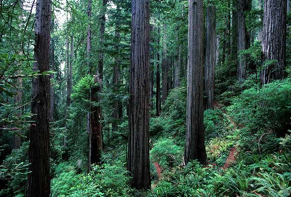 Coast redwoods, Sequoia sempervirens, in Redwood National Park - Jedediah Smith Unit where the forest moon of Endor scenes were filmed for Star Wars Episode VI - Return of the Jedi. This unit of the park is fully within Del Norte County, California.